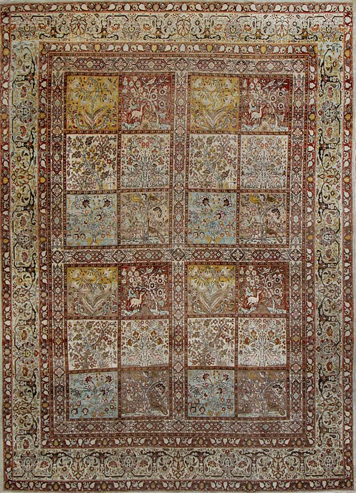 Antique Tabriz Persian Rug